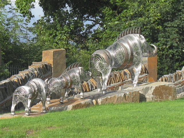 Detail of Twrch Trwyth sculpture. Tony Woodman's sculpture of three wild boars. Detail from 915214